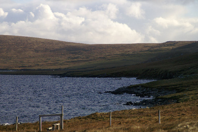 Coastline east of Hamars Ness, Fetlar Looking towards Urie and with the slopes of Vord Hill in the distance.